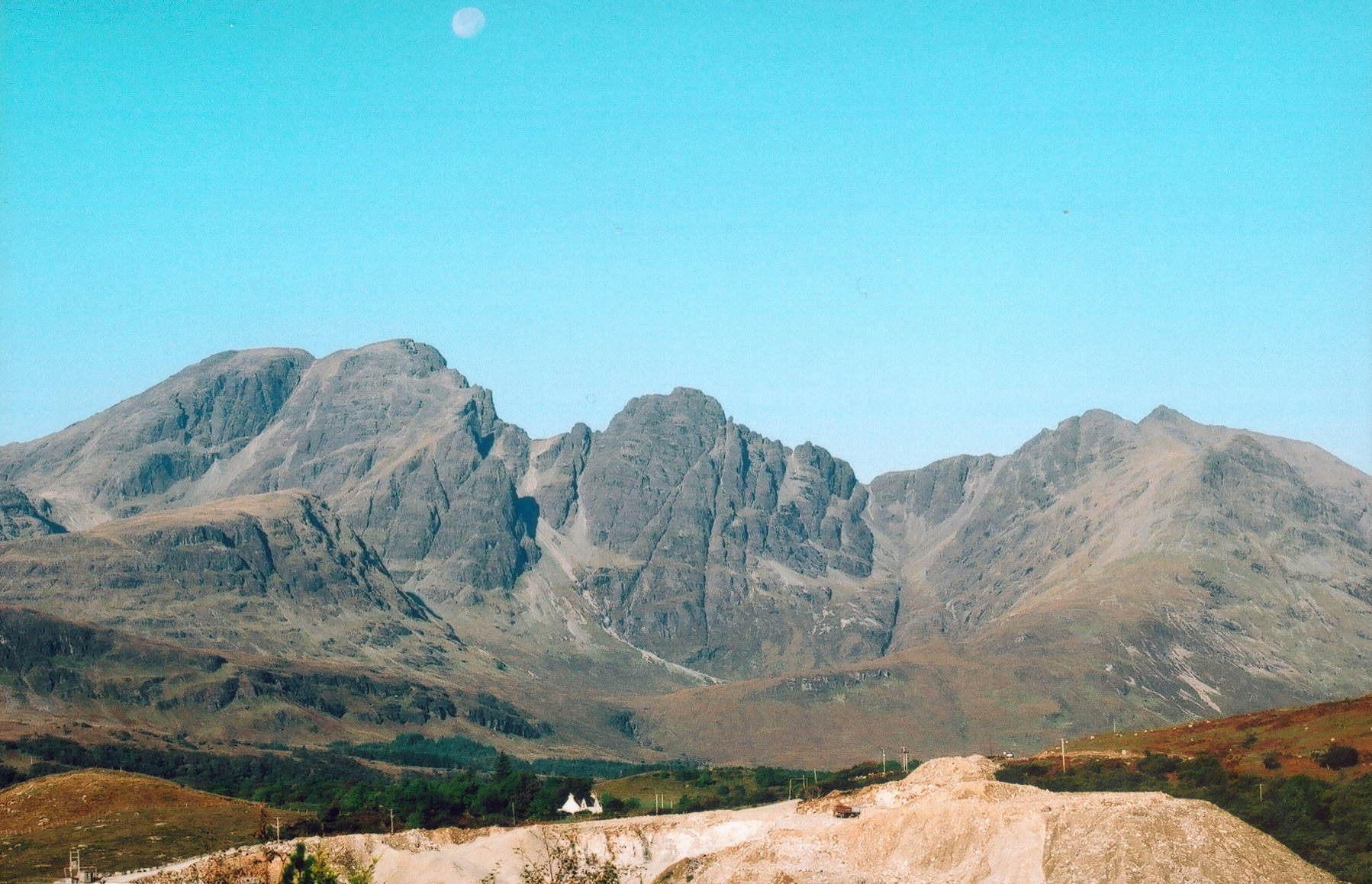 Blaven, Skye